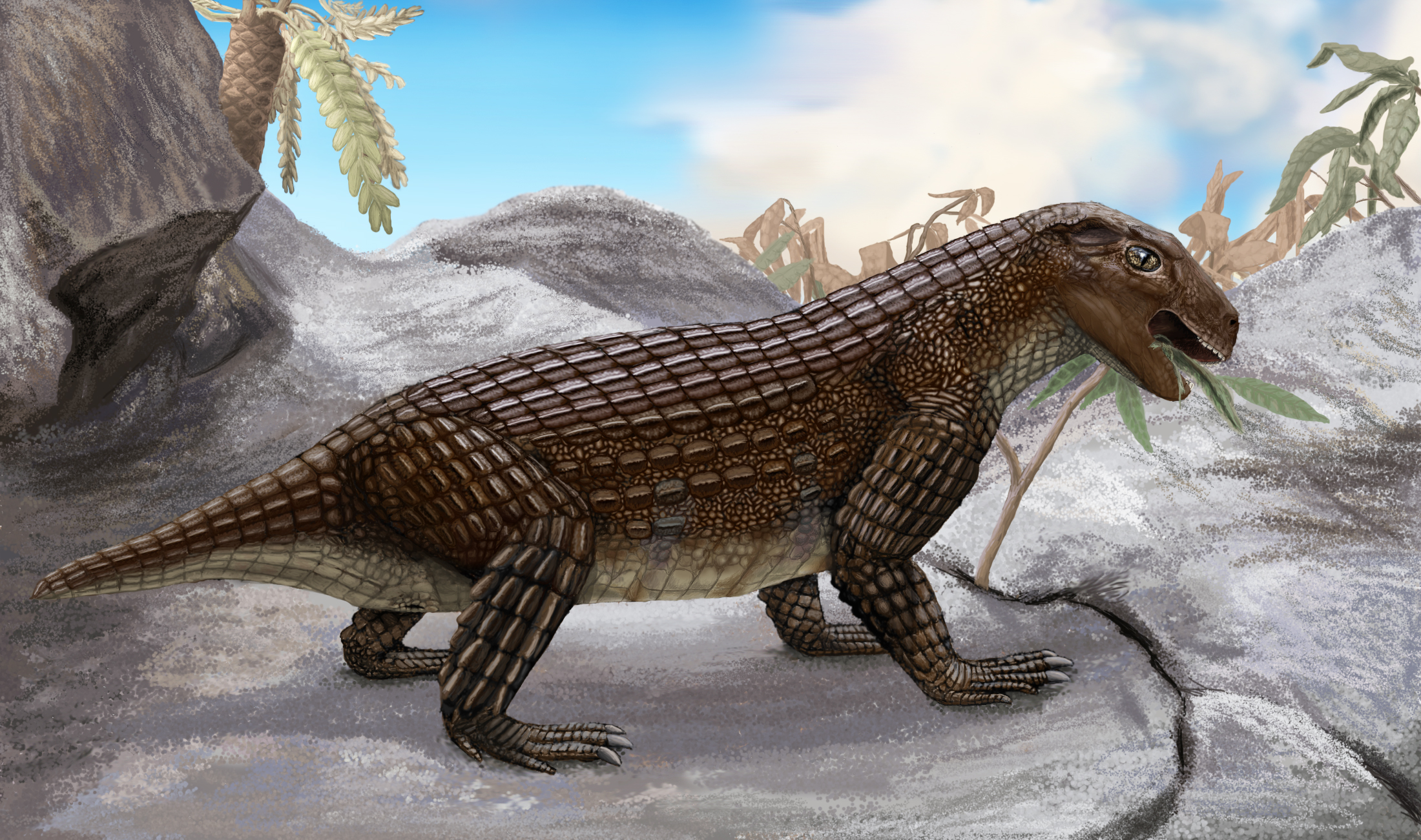 Life restoration of Simosuchus clarki. Based on skeletal and restoration in "Overview of the discovery, distribution, and geological context of Simosuchus clarki (Crocodyliformes: Notosuchia) from the Late Cretaceous of Madagascar" by David W. Krause, Joseph J.W. Sertich, Raymond R. Rogers, Sophia C. Kast, Armand H. Rasoamiaramanana, and Gregory A. Buckley (Journal of Vertebrate Paleontology 30 (sp1): 4-12).